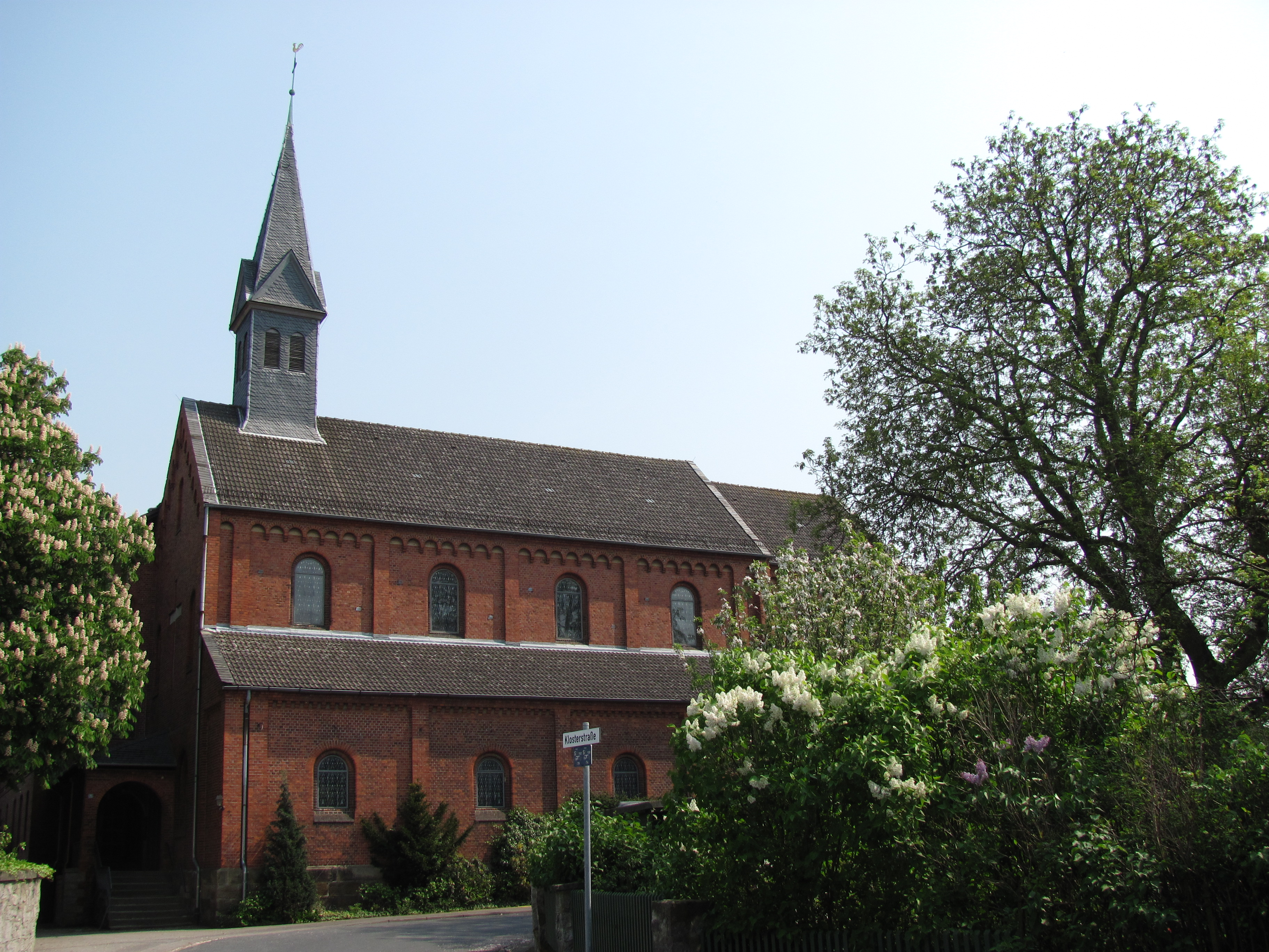 Monastery, Schellerten-Ottbergen, Lower Saxony, Germany